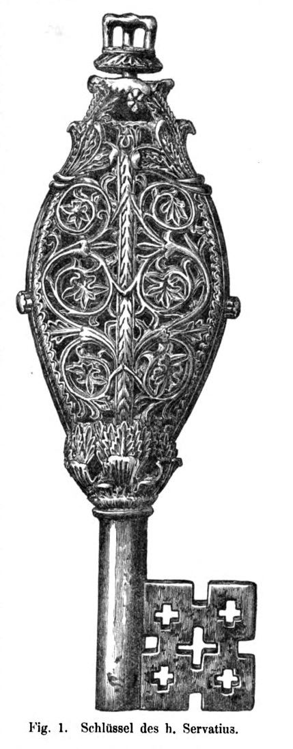 Woodcut illustration of the so-called Key of Saint Servatius (9th c.) in the Treasury of the Basilica of Saint Servatius in Maastricht, the Netherlands. One of 66 illustrations in Bock & Willemsen's 1872 publication on the church treasures of St. Servatius and Our Lady, both in Maastricht.